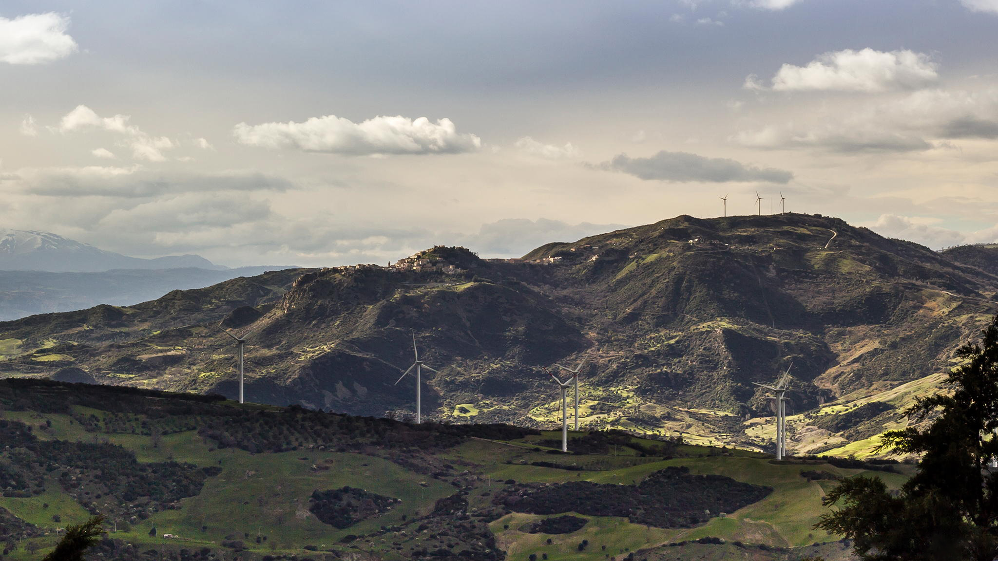 View of Colobraro, South Italy